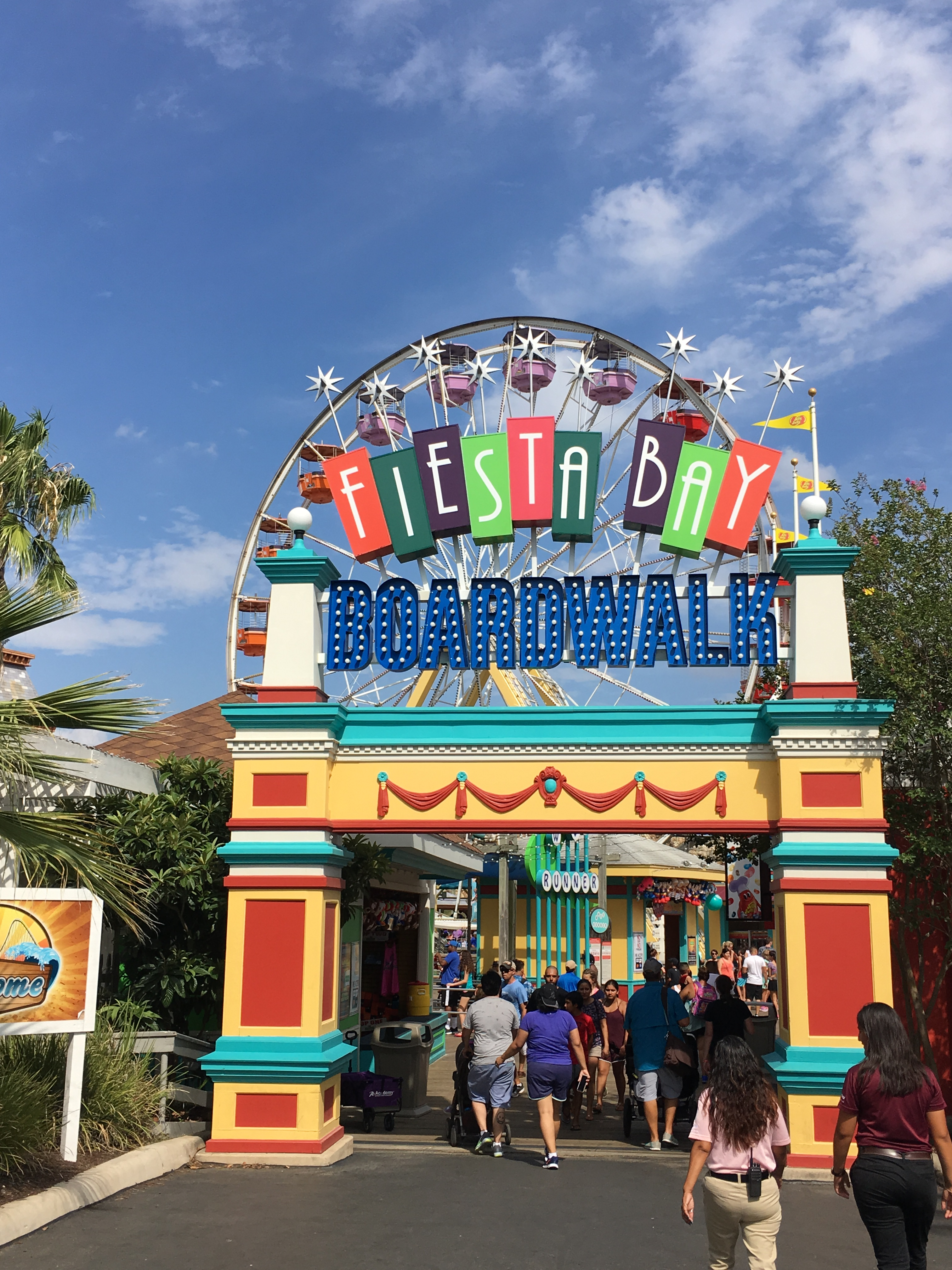 One of the many entry ways to Fiesta Bay Boardwalk at Six Flags Fiesta Texas.